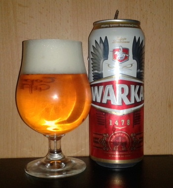 Warka Jasne Pełne (.50 liter can + unrelated glass)